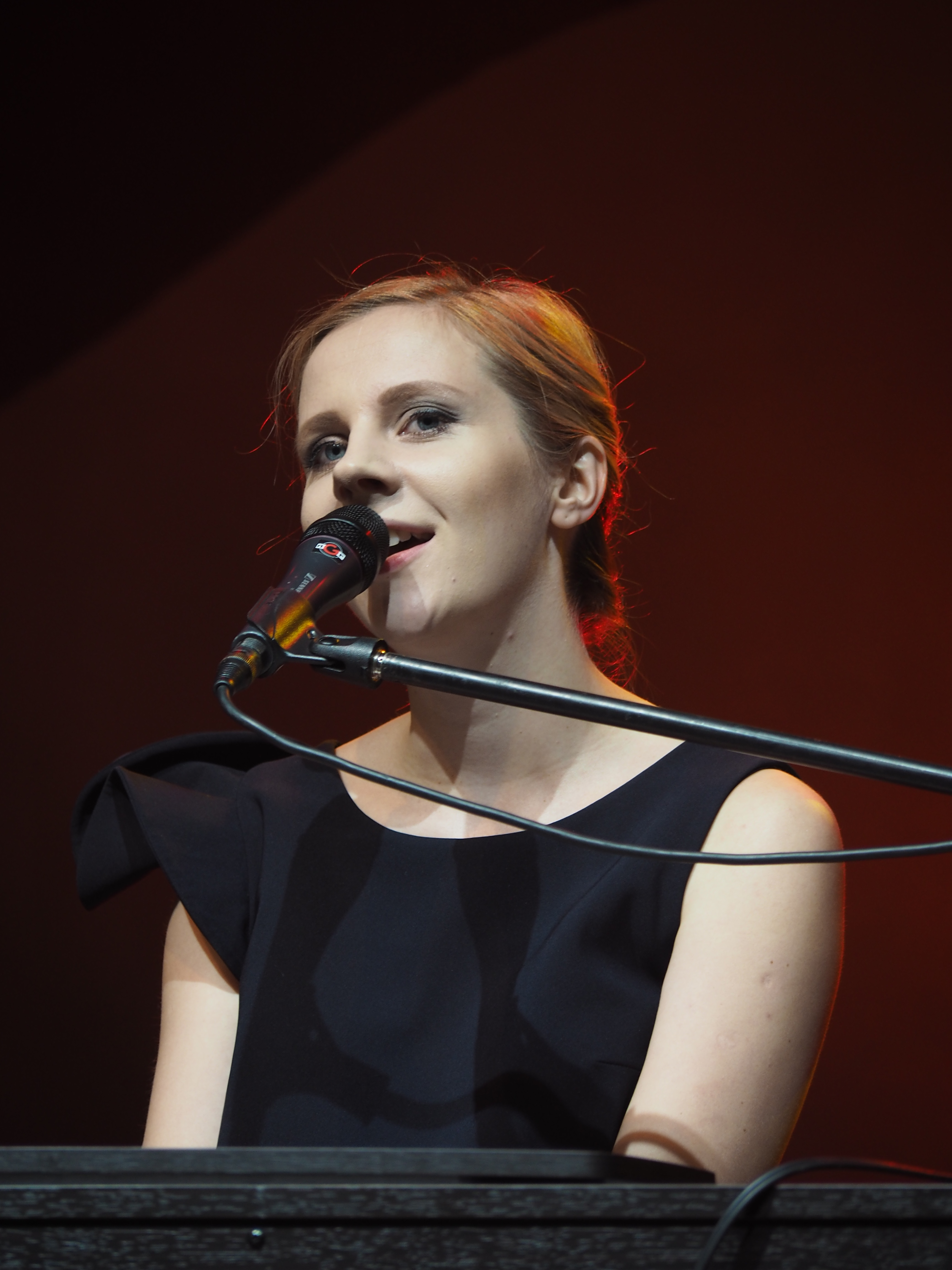 Ieva Narkutė at Purpurinis vakaras, 2016